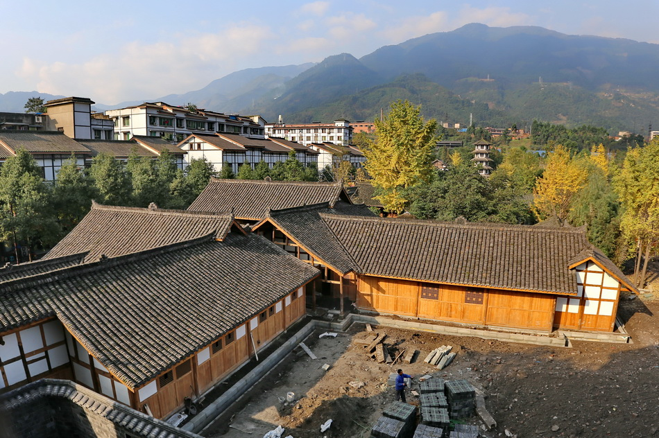 Former residence of Guo Moruo in Leshan